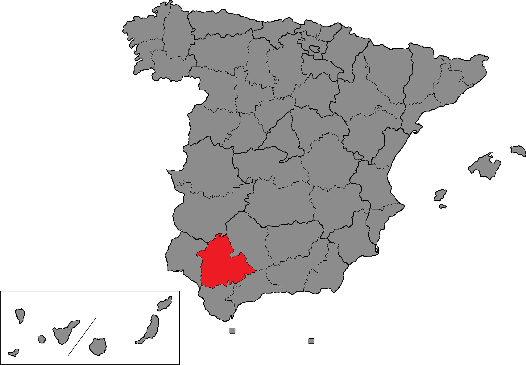 Spanish Congress of Deputies district of Seville.